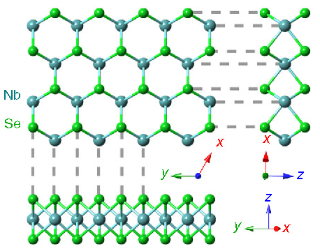 Ball-and-stick model of monolayer 2H-NbSe2 viewed from three different directions